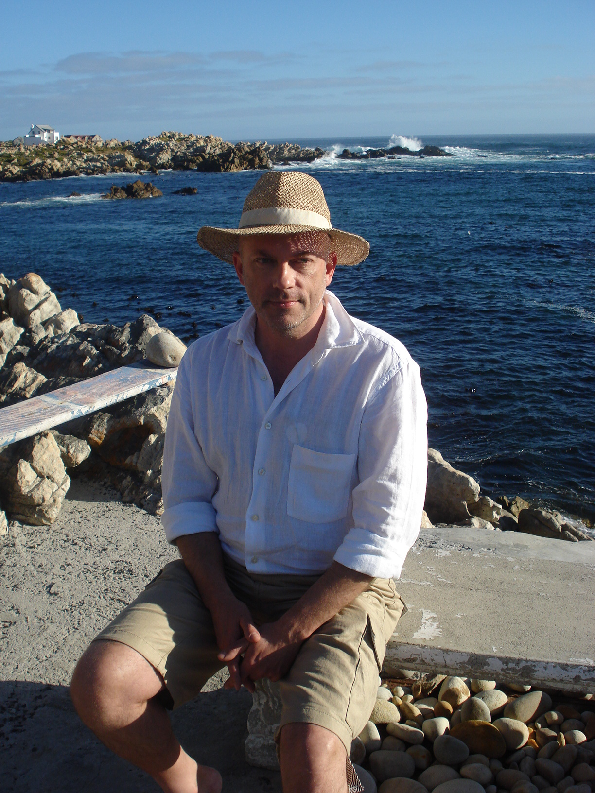 Keith Foster, TV presenter/writer based in Sweden